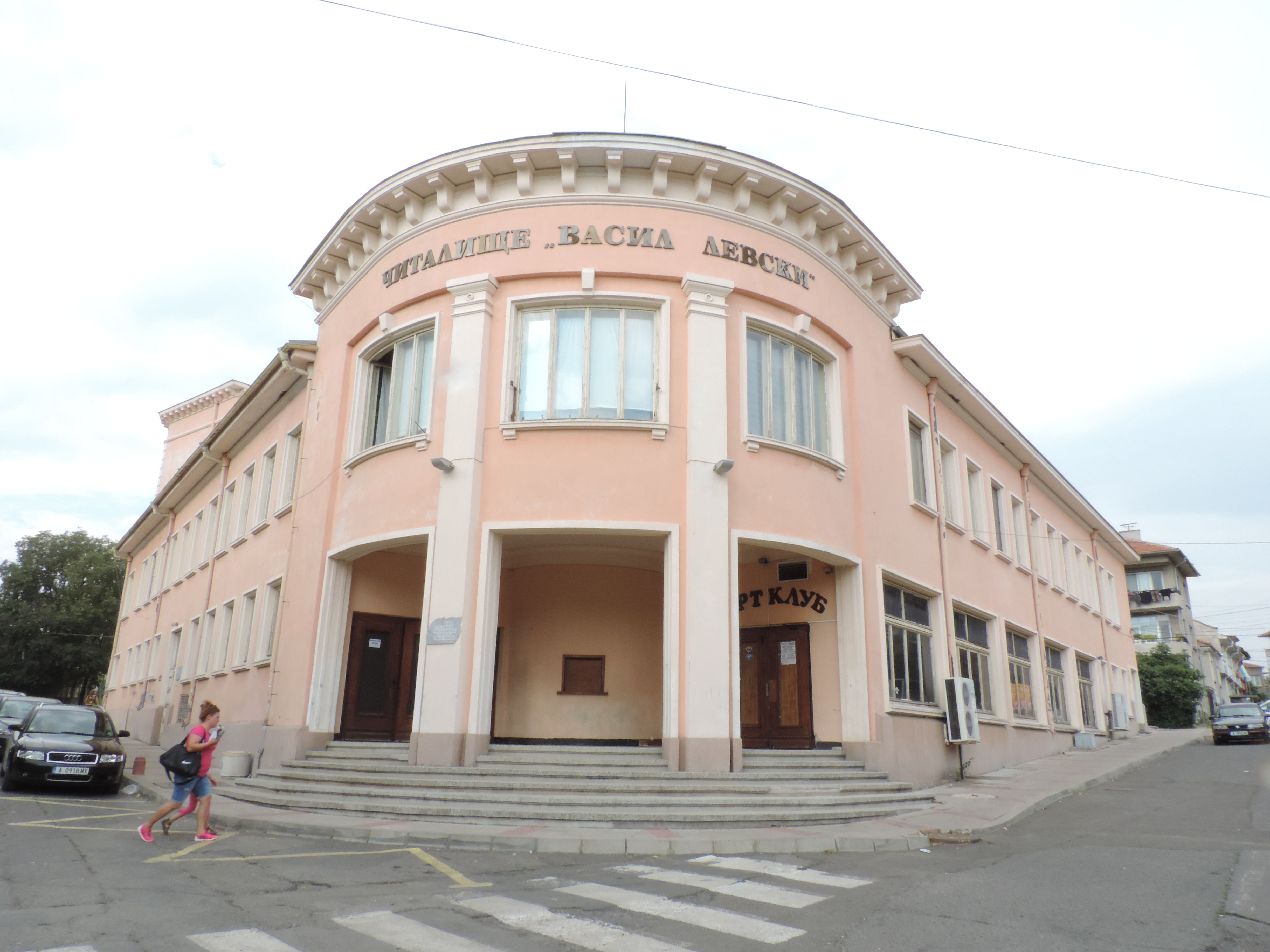 "Vasil Levski" cultural centre (chitalishte) in Aytos, Bulgaria